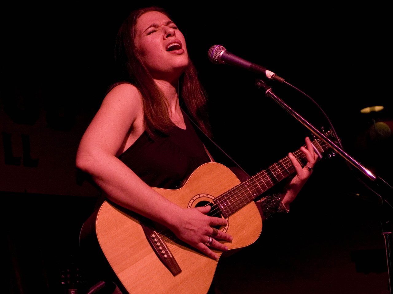 Coco Love Alcorn (Quote from photographer: "I was privileged to see and hear Coco Love Alcorn (yes, that's her real given name) tonight at the Ironwood Stage and Grill, along with two other amazing women, Jaylene Johnson and Jenny Allen. Spectacular show, and as always, Coco's voice was pure magic.")